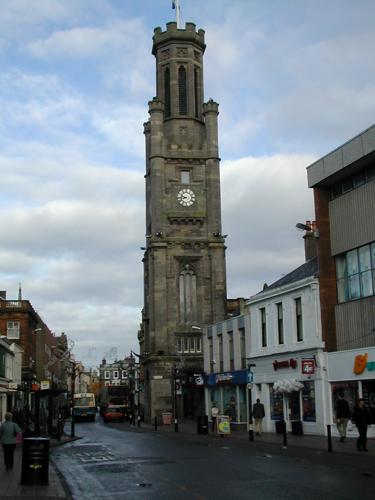 Nom du fichier : DSCN2672.JPG Taille du fichier : 745.2 Ko (763086 octets) Date : 0000/00/00 00:00:00 Taille de l'image : 1600 x 1200 pixels Résolution : 300 x 300 ppp Profondeur en bits : 8 bits/canal Attribut de protection : Désactivé Attribut Masqué : Désactivé ID de l'appareil : N/A Appareil : E775 Mode de qualité : FINE Mode de mesure : Multizones Mode d'exposition : Programme Auto Speed Light : Non Distance Focale : 7.6 mm Vitesse d'obturation : 1/112.6 seconde Ouverture : F8.9 Correction d'exposition : 0 IL Balance des blancs : Auto Objectif : Intégré Mode Synchro-Flash : Premier Rideau Différence d'exposition : N/A Programme Décalable : N/A Sensibilité : Auto Renforcement de la netteté : Auto Type d'image : Couleur Mode Couleur : N/A Saturation : N/A Contrôle Saturation : N/A Compensation des tons : Normal Latitude (GPS) : N/A Longitude (GPS) : N/A Altitude (GPS) : N/A